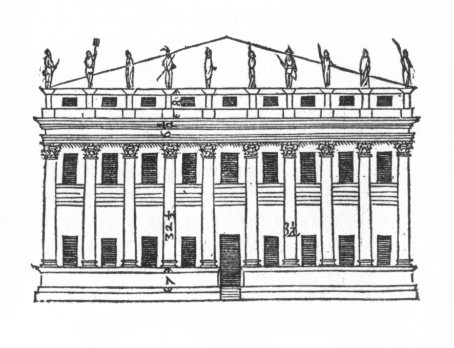 Vicenza, Palazzo Angarano, unrealised design (1564)